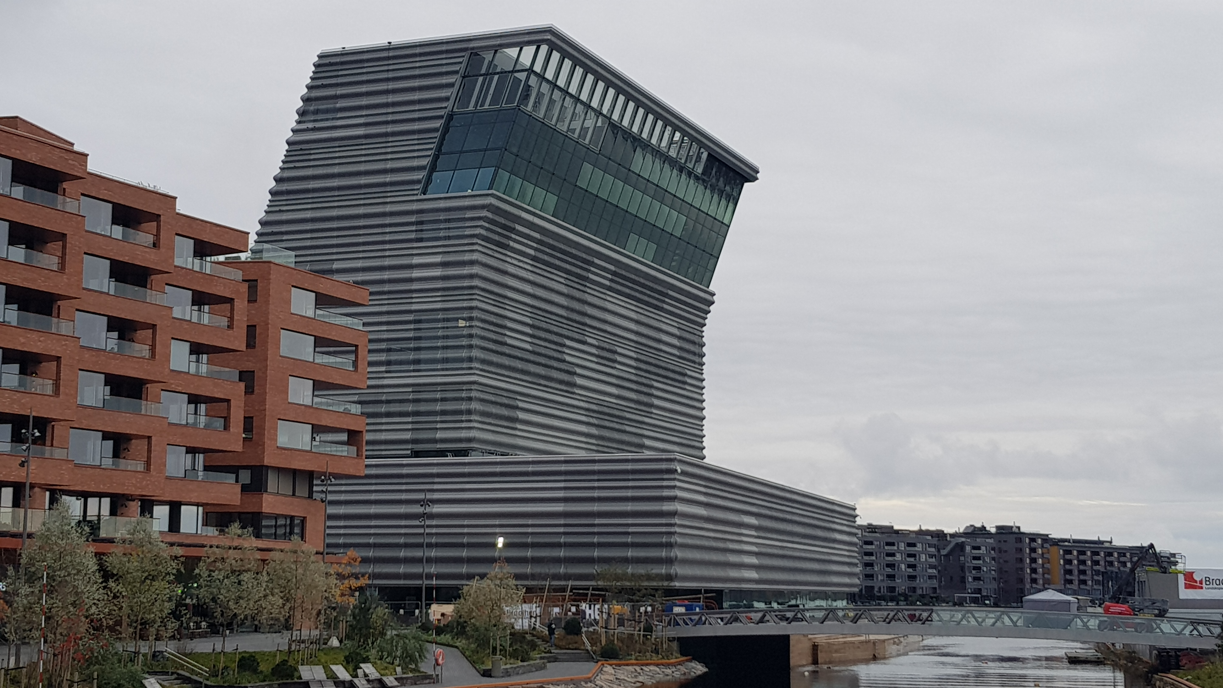 Lambda by Akerselvallmenningen and Munchs brygge